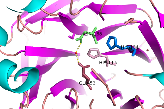 One of the suggested lactonase active sites of serum paraoxonase-1